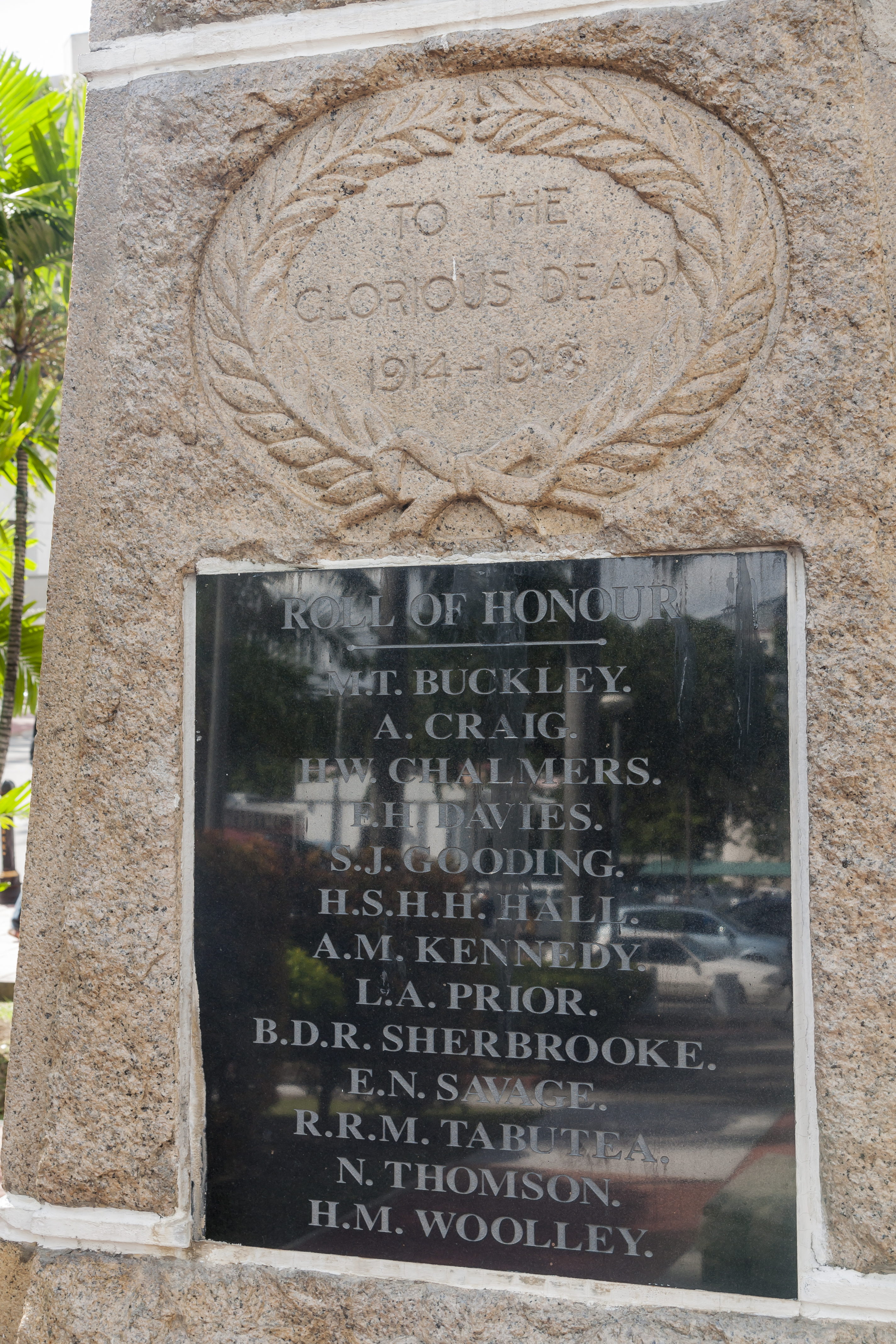 Kota Kinabalu, Sabah: North Borneo War Memorial, located in KK City Park after his relocation from Gaya Street